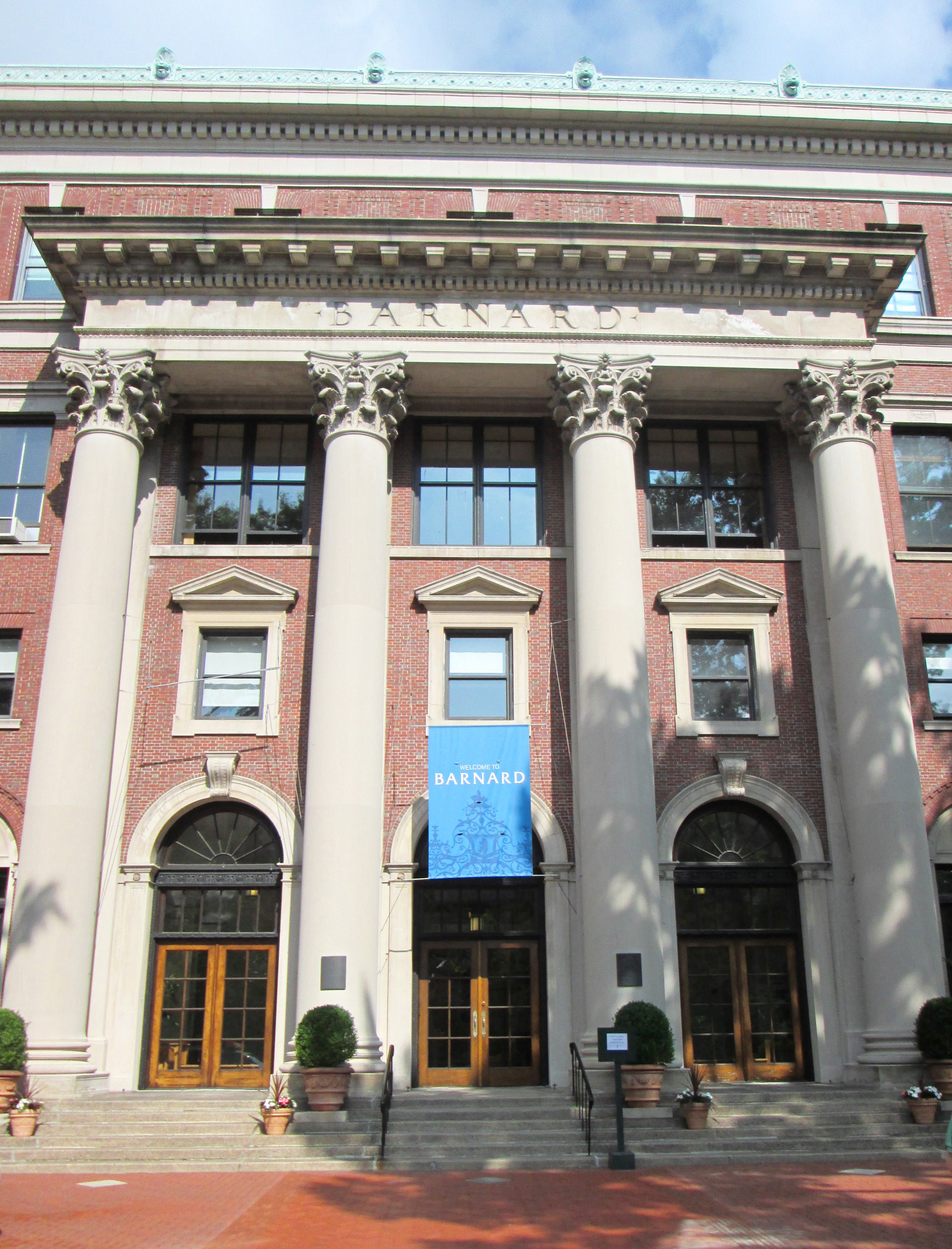 Barnard Hall, originally called Student's Hall, on the Morningside Heights campus of Barnard College inManhattan, New York City, was built in 1916-17 and was designed by Arnold Brunner. (Source: AIA Guide to NYC (5th ed.))